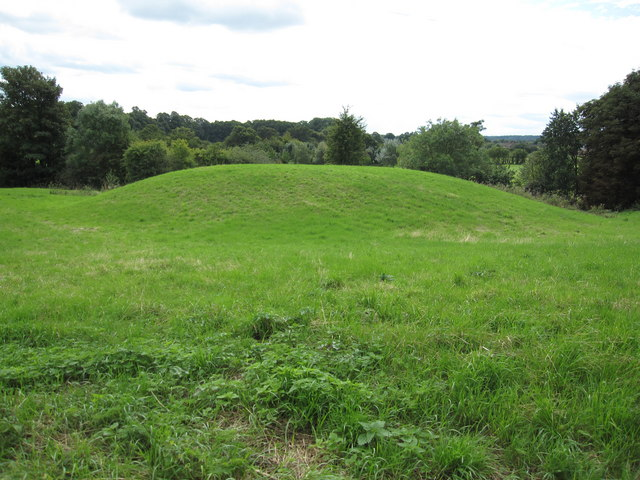 Pulford Castle This small motte and bailey castle is believed to have been built around 1100 when it defended the strategic river crossing and marshy ground around what is now Pulford Brook. Today it seems inconsequential standing as it does behind Pulford church and away from the modern Chester to Wrexham road.